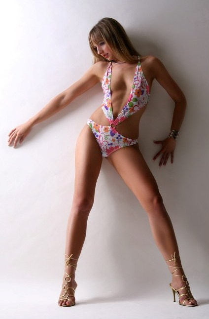 Swim wear